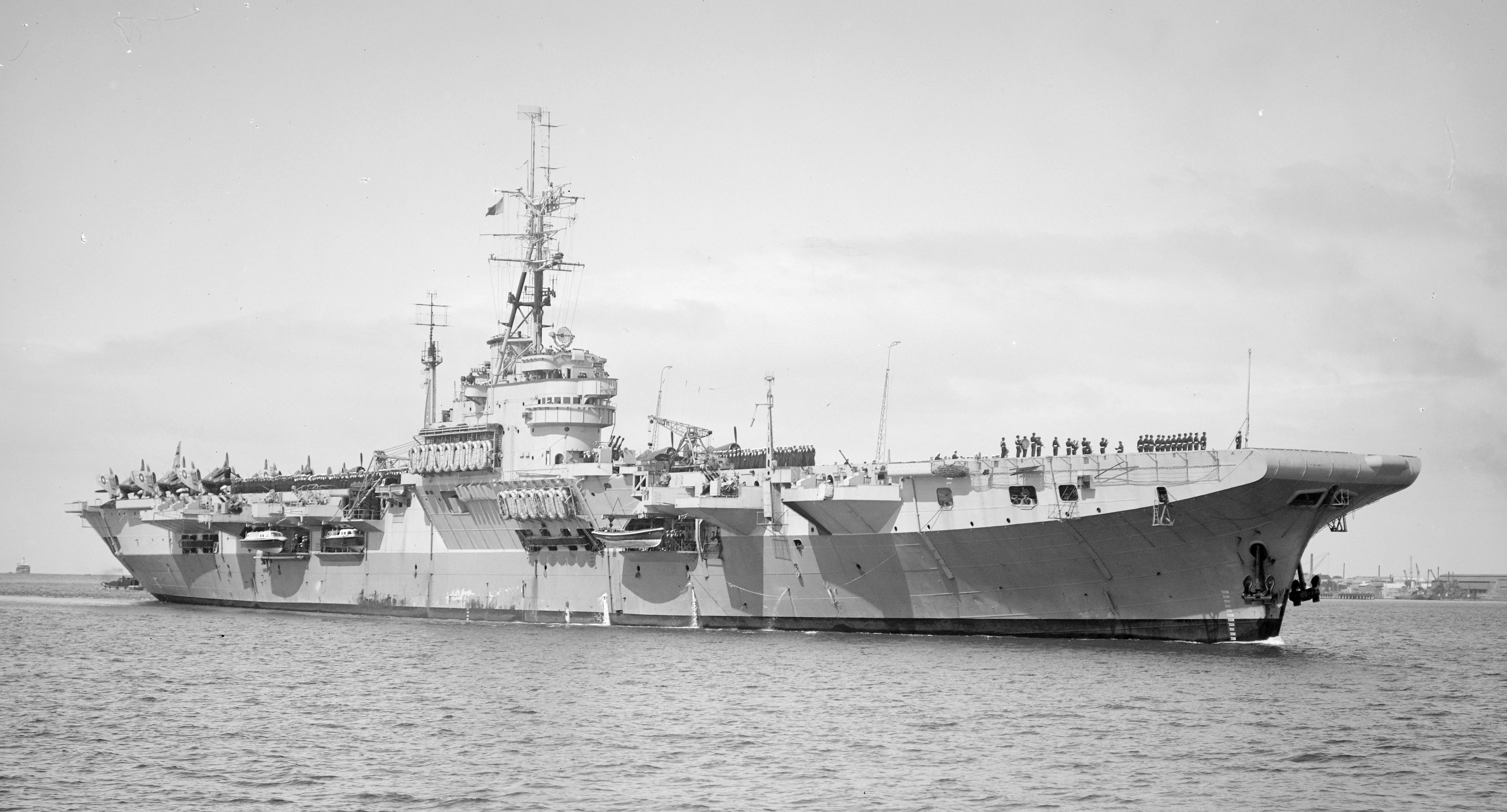 The Royal Navy Colossus-class aircraft carrier HMS Glory (R62) in 1946.